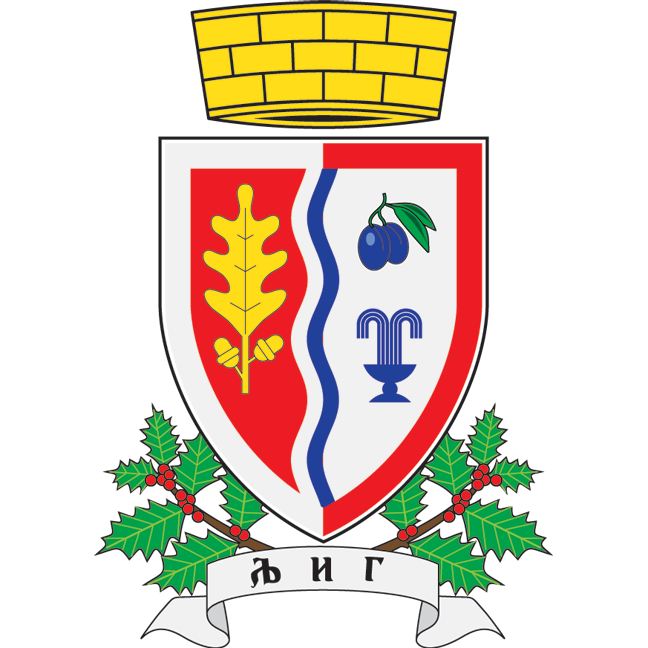 Coat of arms of Ljig (middle)